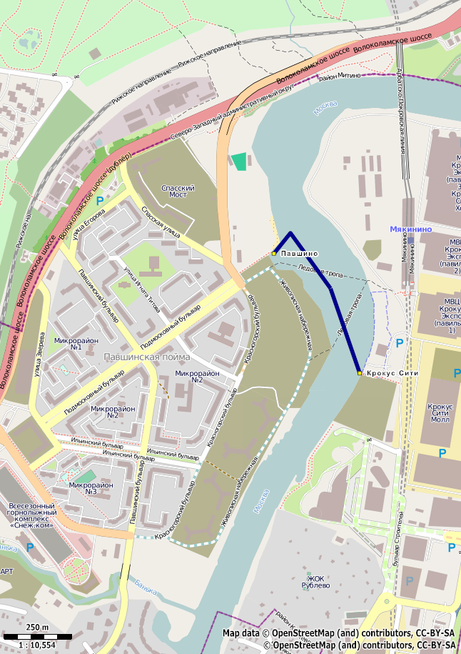 Карта переправы в Павшино осенью 2012 This map may be incomplete, and may contain errors. Don't rely solely on it for navigation.